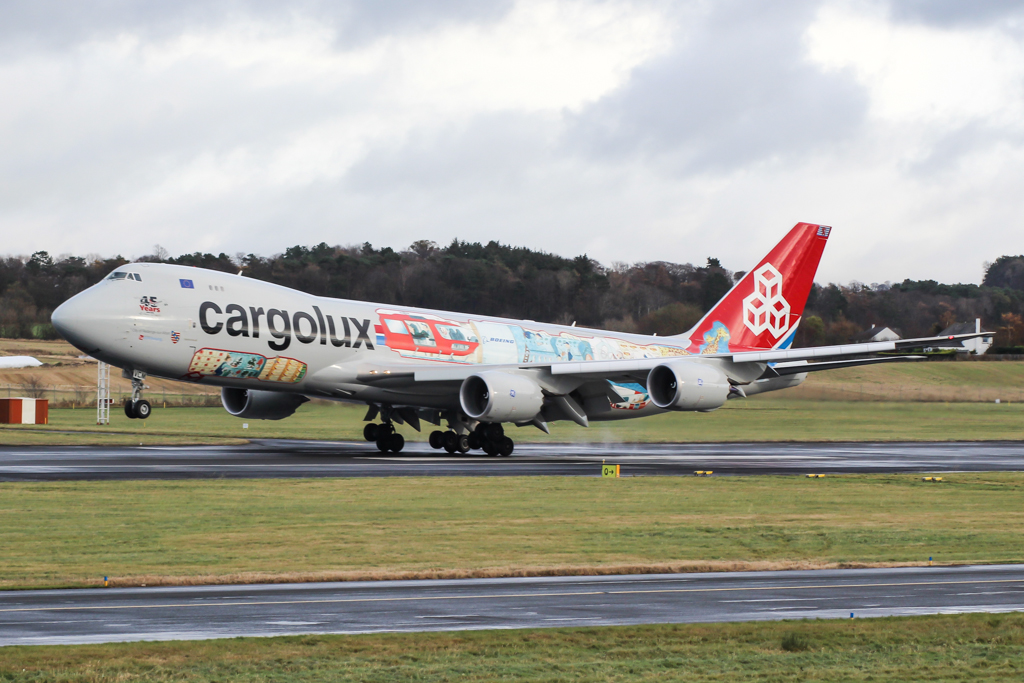 LX-VCM Boeing 747-8F Cargolux landing at PRestwick